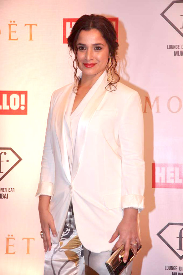 Simone Singh graces the Moet N Chandon bash at F bar